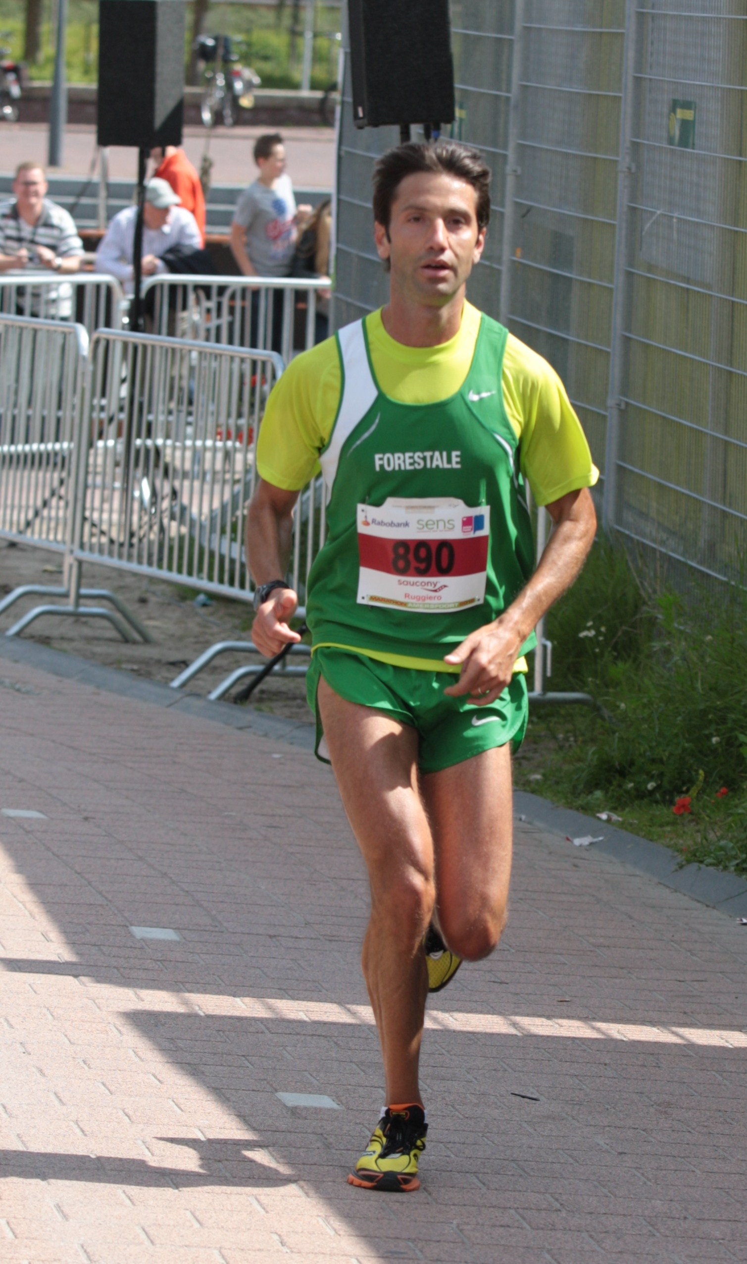 Ruggiero Giovanni winner of the half marathon, Amersfoort 2012